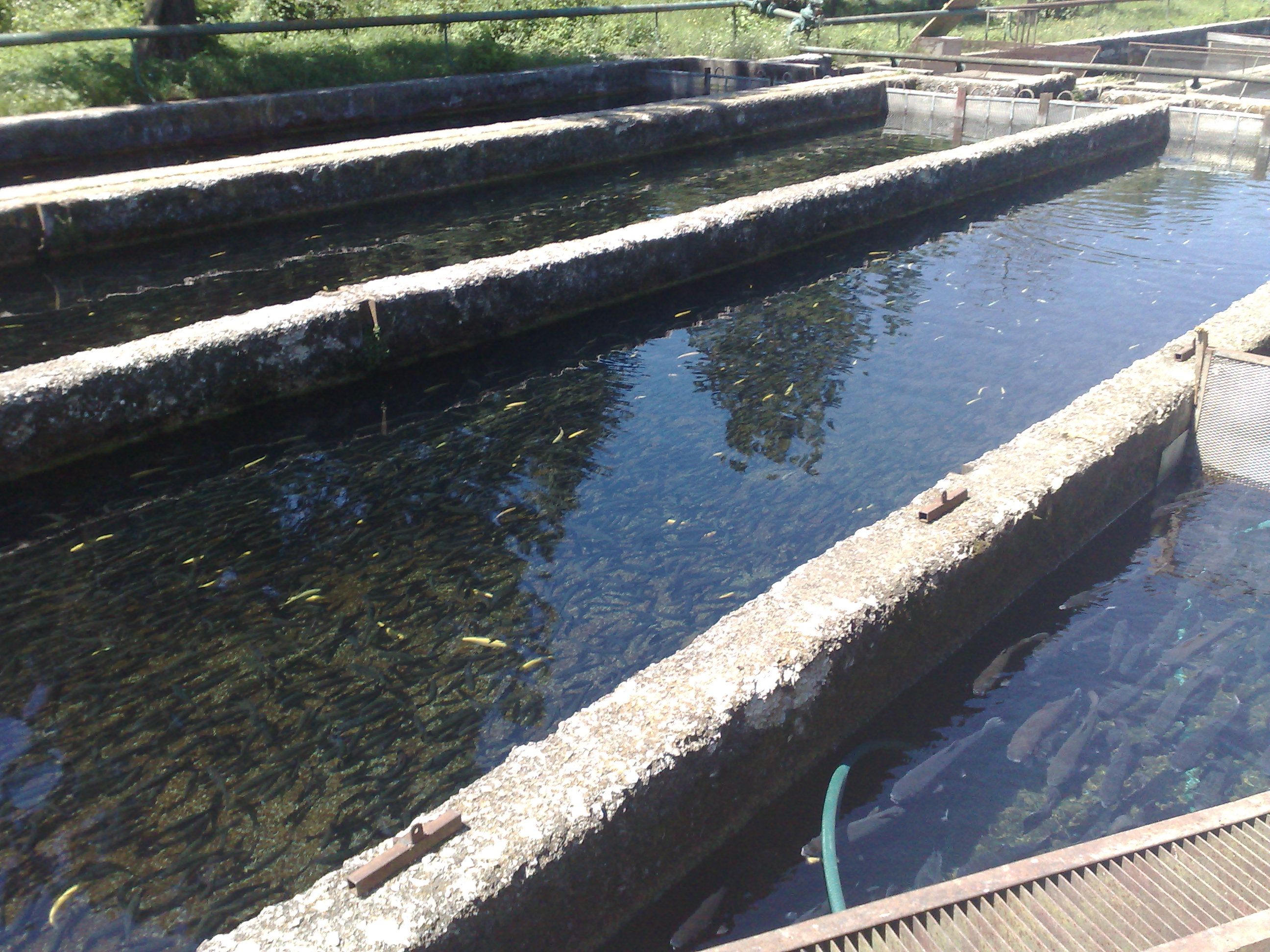 Volkovija fish pond